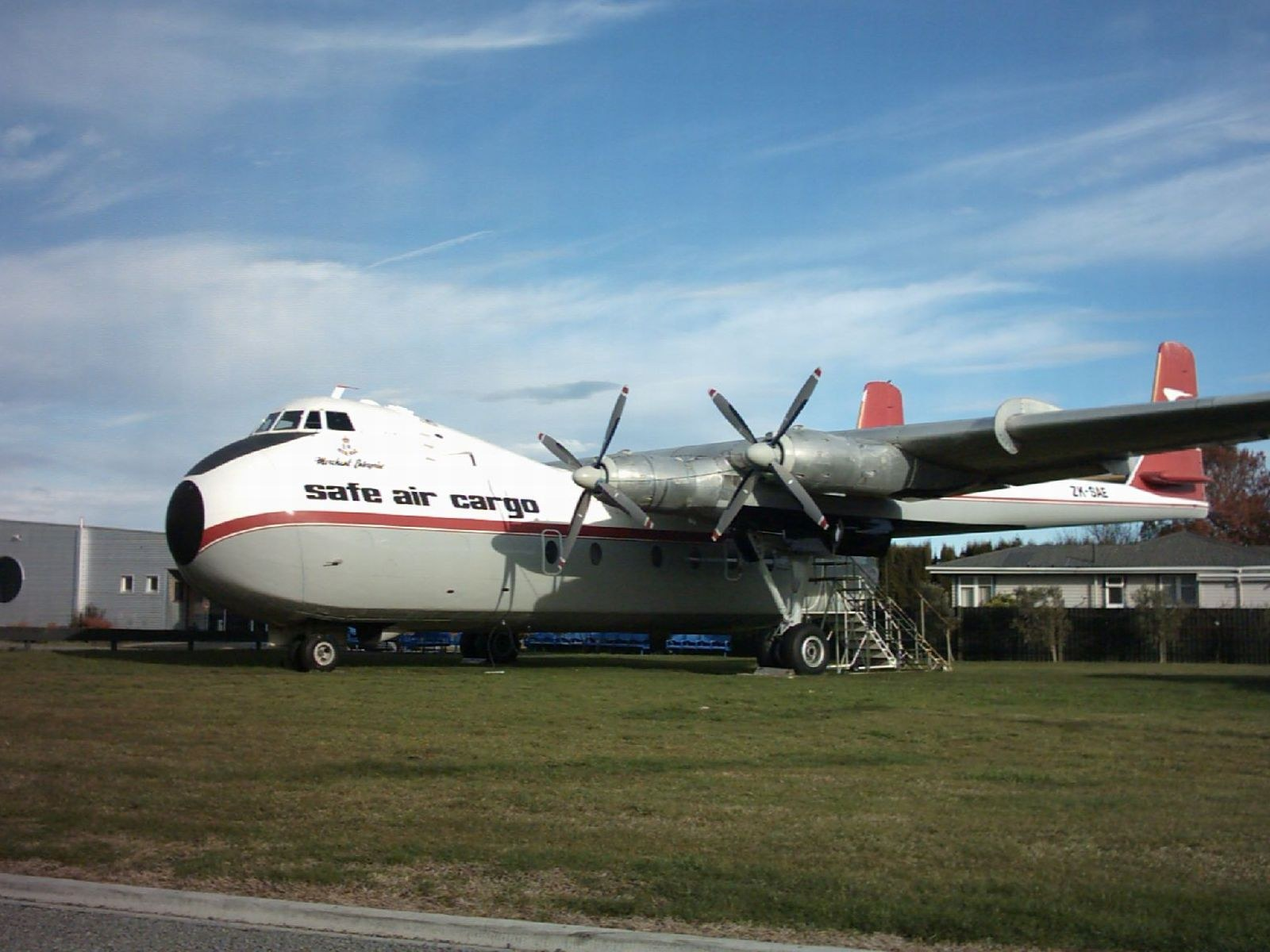 An Armstrong Withworth Argosy as exhibited by a private owner at Blenheim, New Zealand. This is ZK-SAE, Merchant Enterprise.